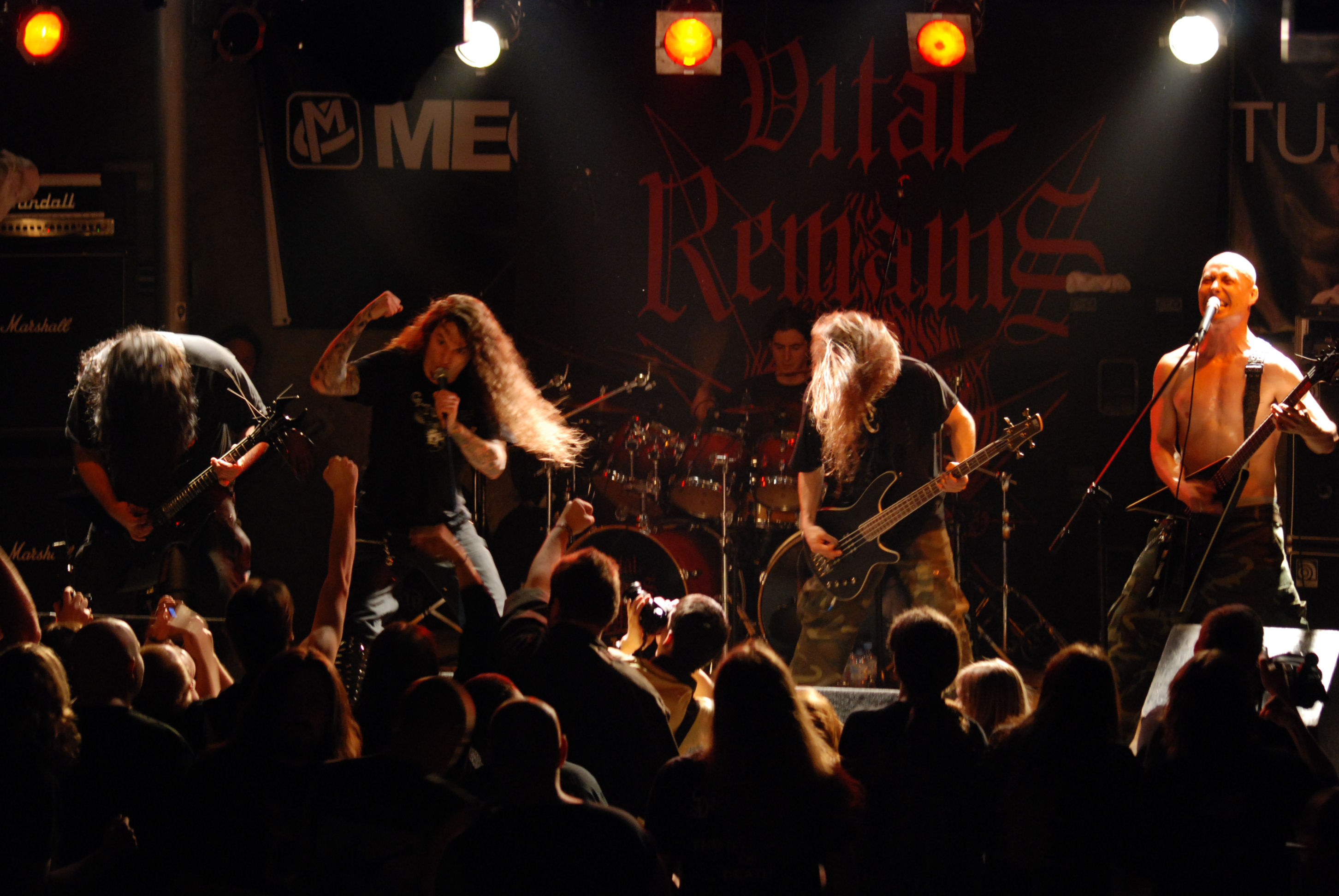 Vital Remains in Mega Club in Katowice